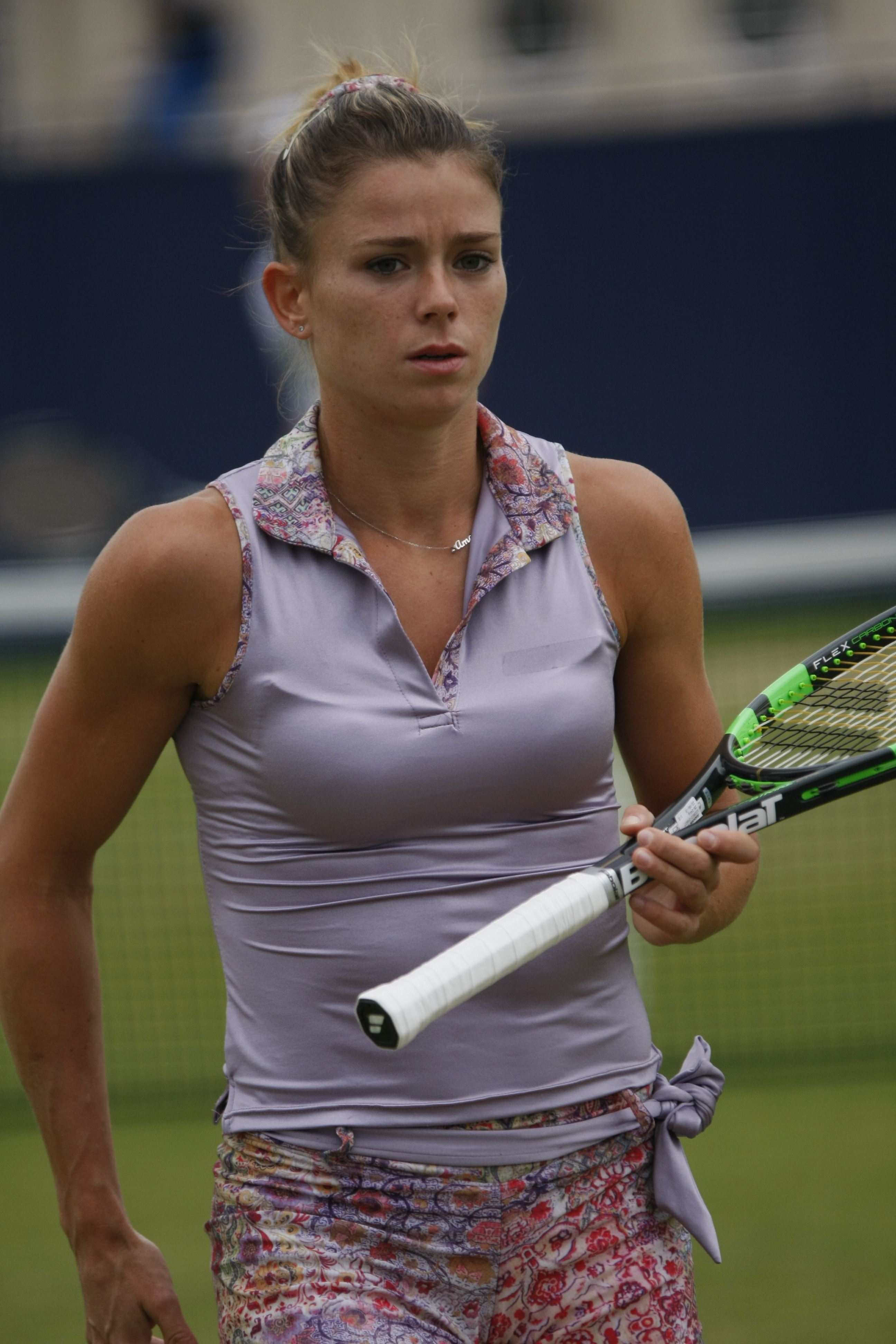 Aegon International Tennis, Devonshire Park, Eastbourne June 2015